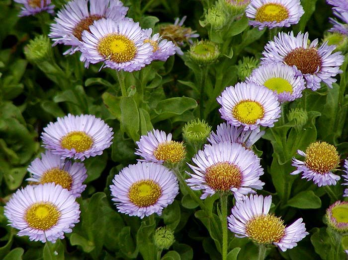 Photo of Erigeron glaucus 'Arthur Menzies' at the San Francisco Botanical Garden